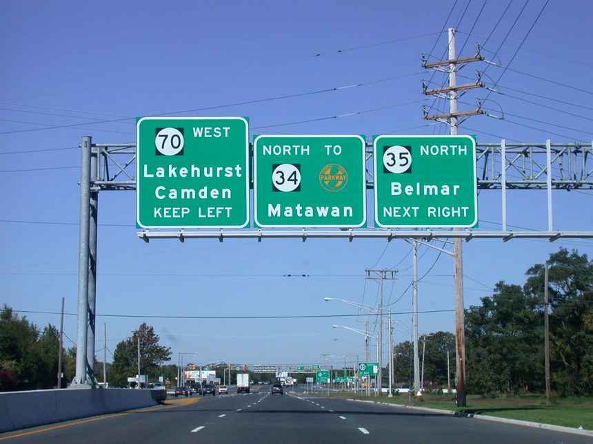 Route 35 as it approaches Route 70 & 34